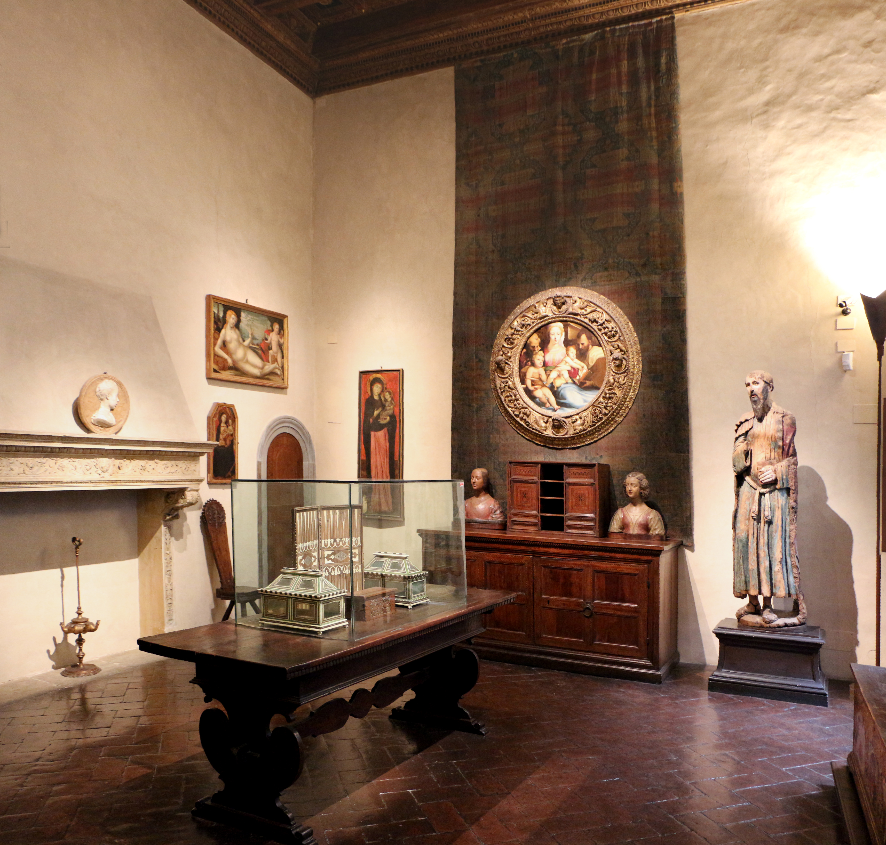 Museo Horne, Florence